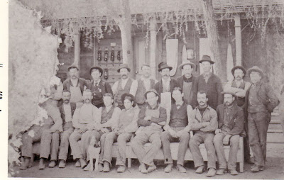 workers at the California Nursery Company taken in the early 1890s at their Fremont, California location